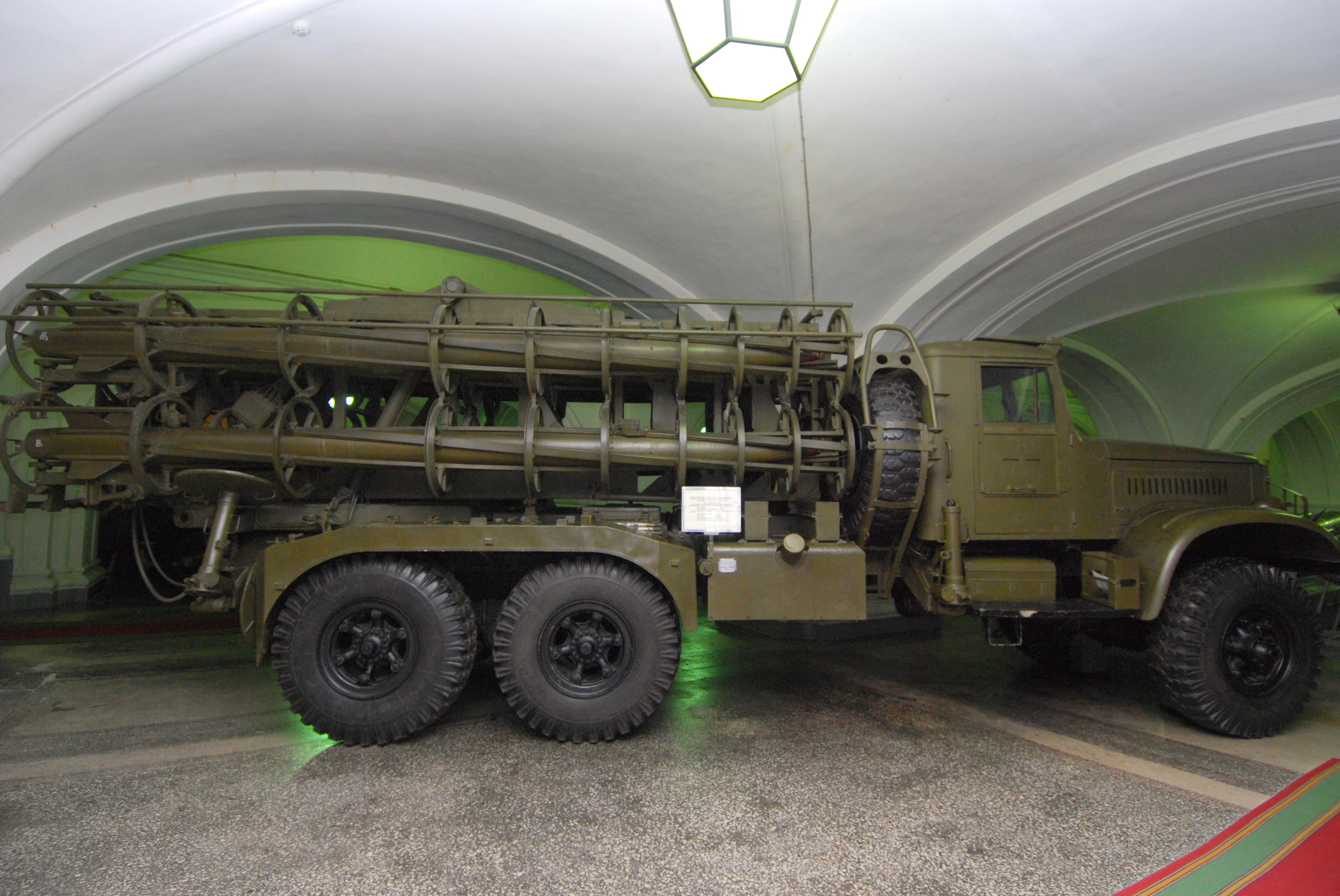 2P5 Transporter-Erector-Launcher with six 3R7 missiles of 2K5 missile complex «Korshun» in Saint Petersburg Artillery museum